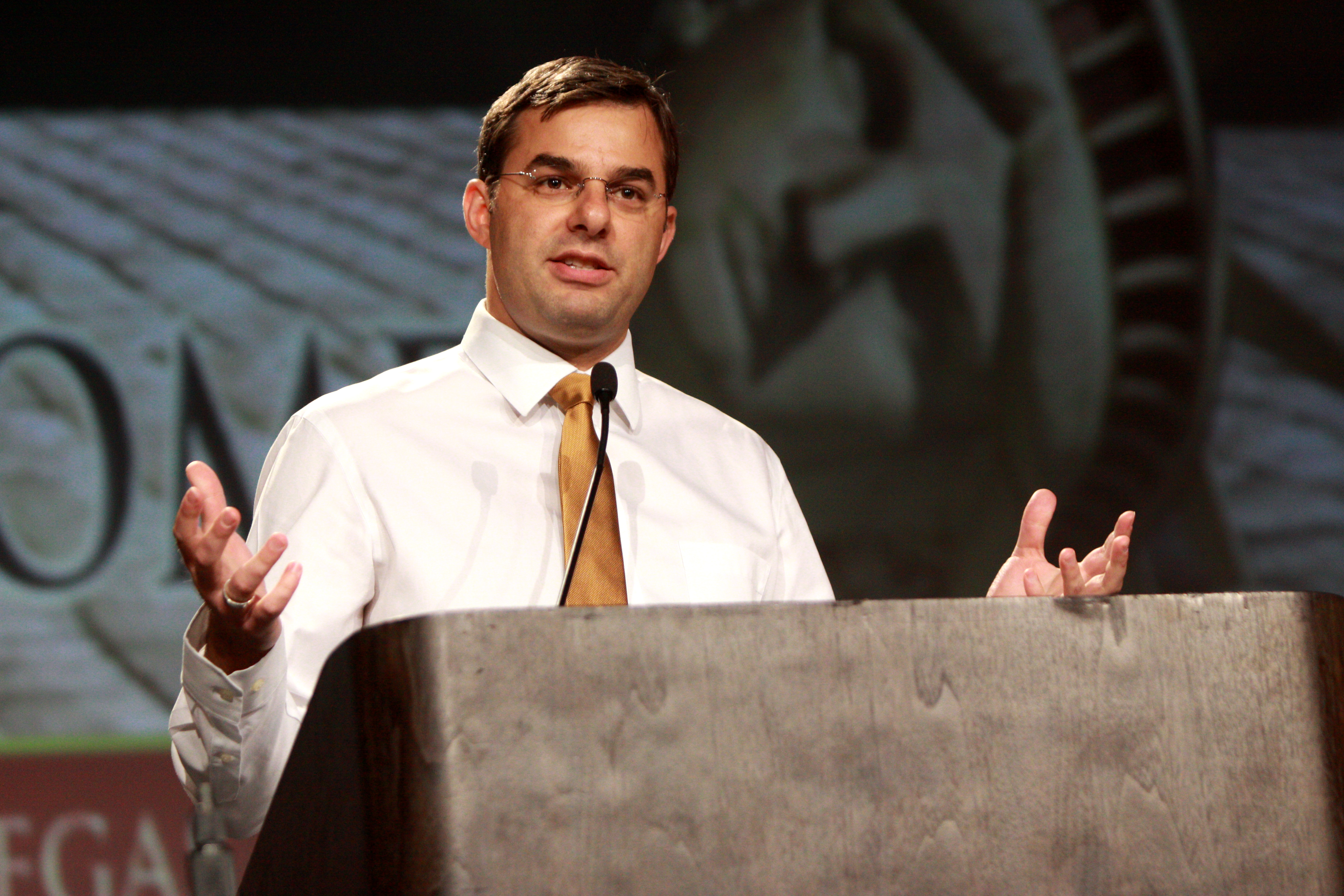 Congressman Justin Amash speaking at the 2013 FreedomFest in Las Vegas, Nevada.